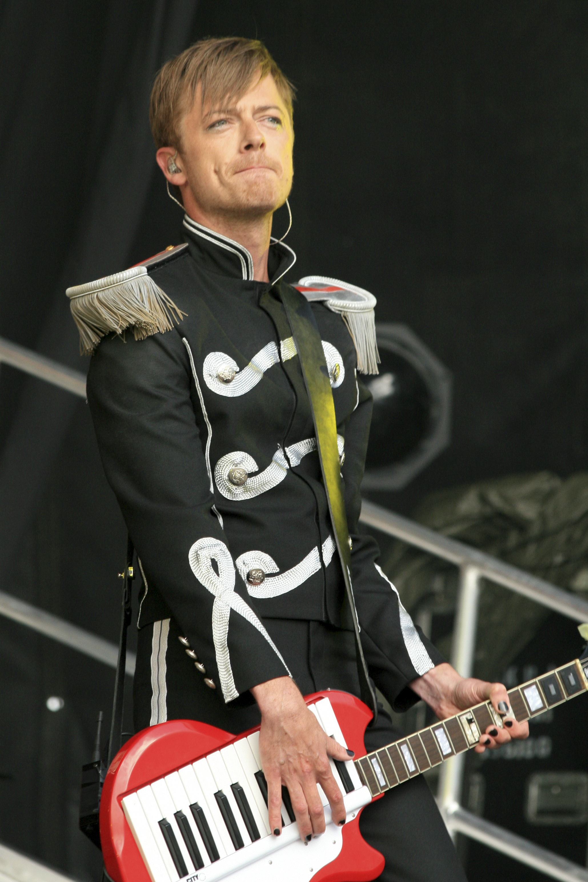 Claus Noreen from Aqua, at Grøn Koncert.